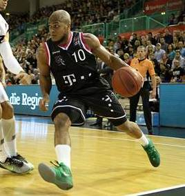 taken during professional basketball game in Germany